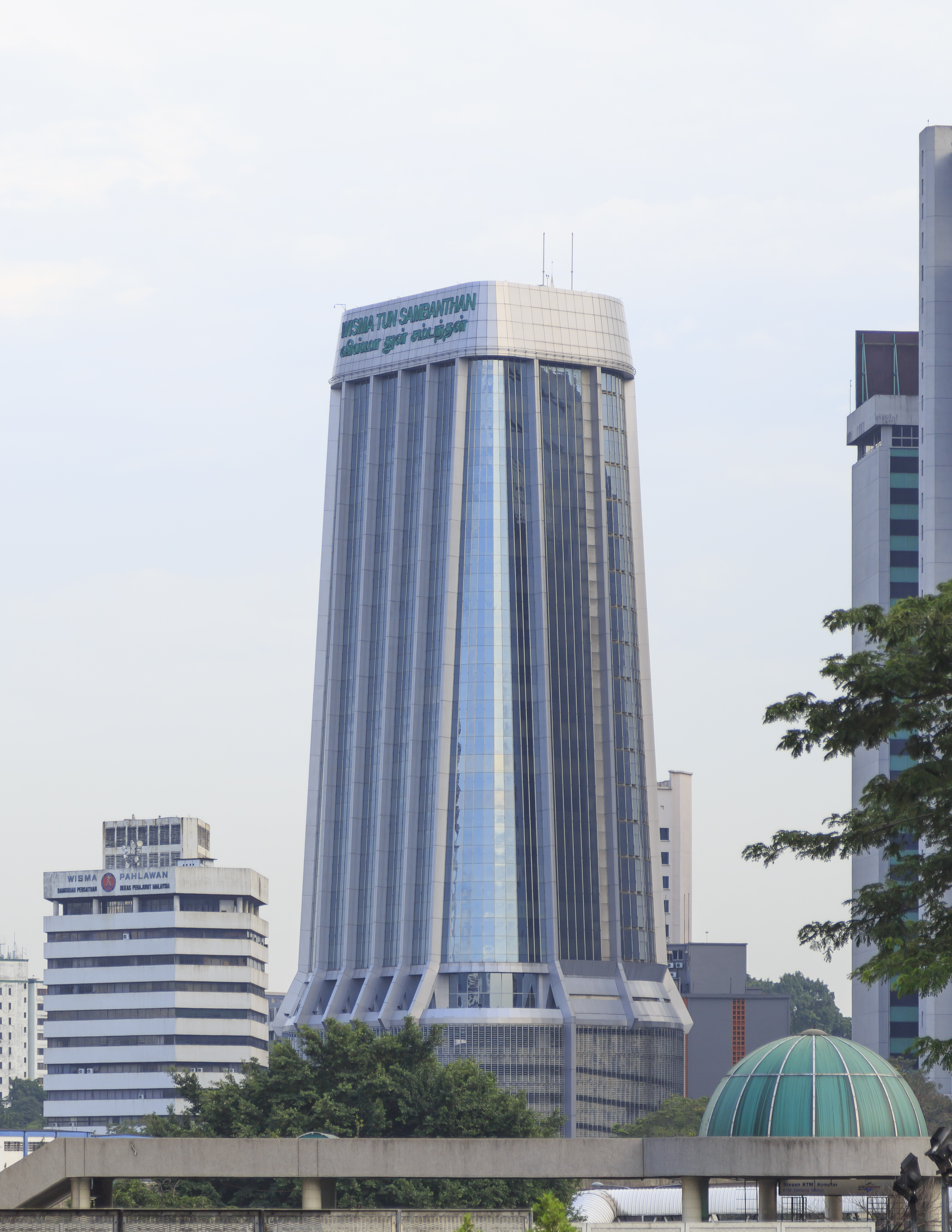 Kuala Lumpur, Malaysia: in the middle Wisma Tun Sambanthan, a 27-storey office building built by the NLFCS (National Land Finance Cooperative Society). At its left Wisma Pahlawan.